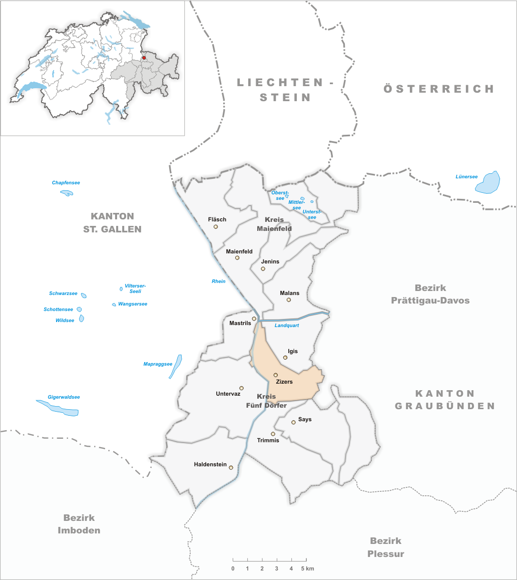 Municipality Zizers